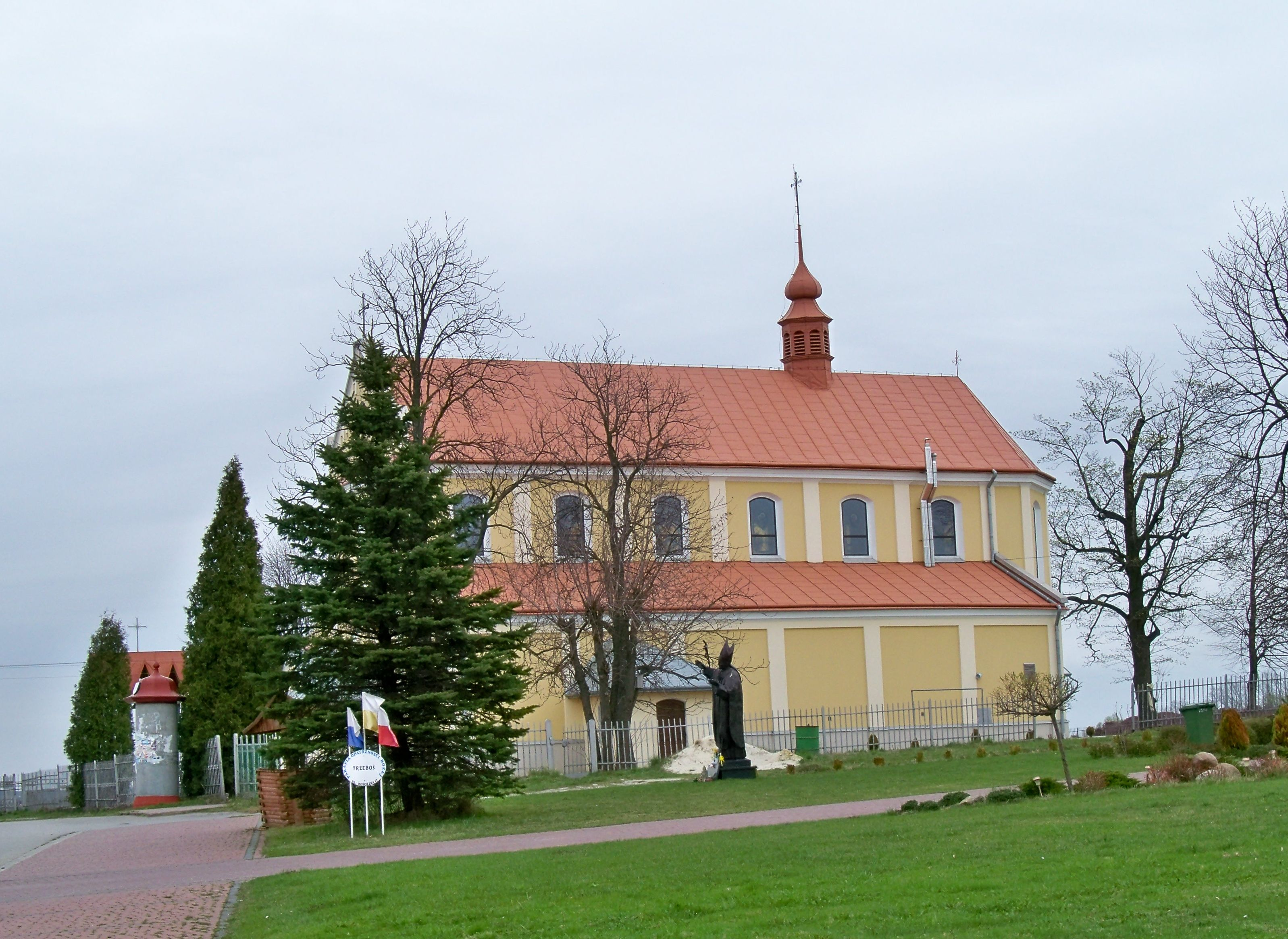 God Providence church in Trzeboś (Poland)